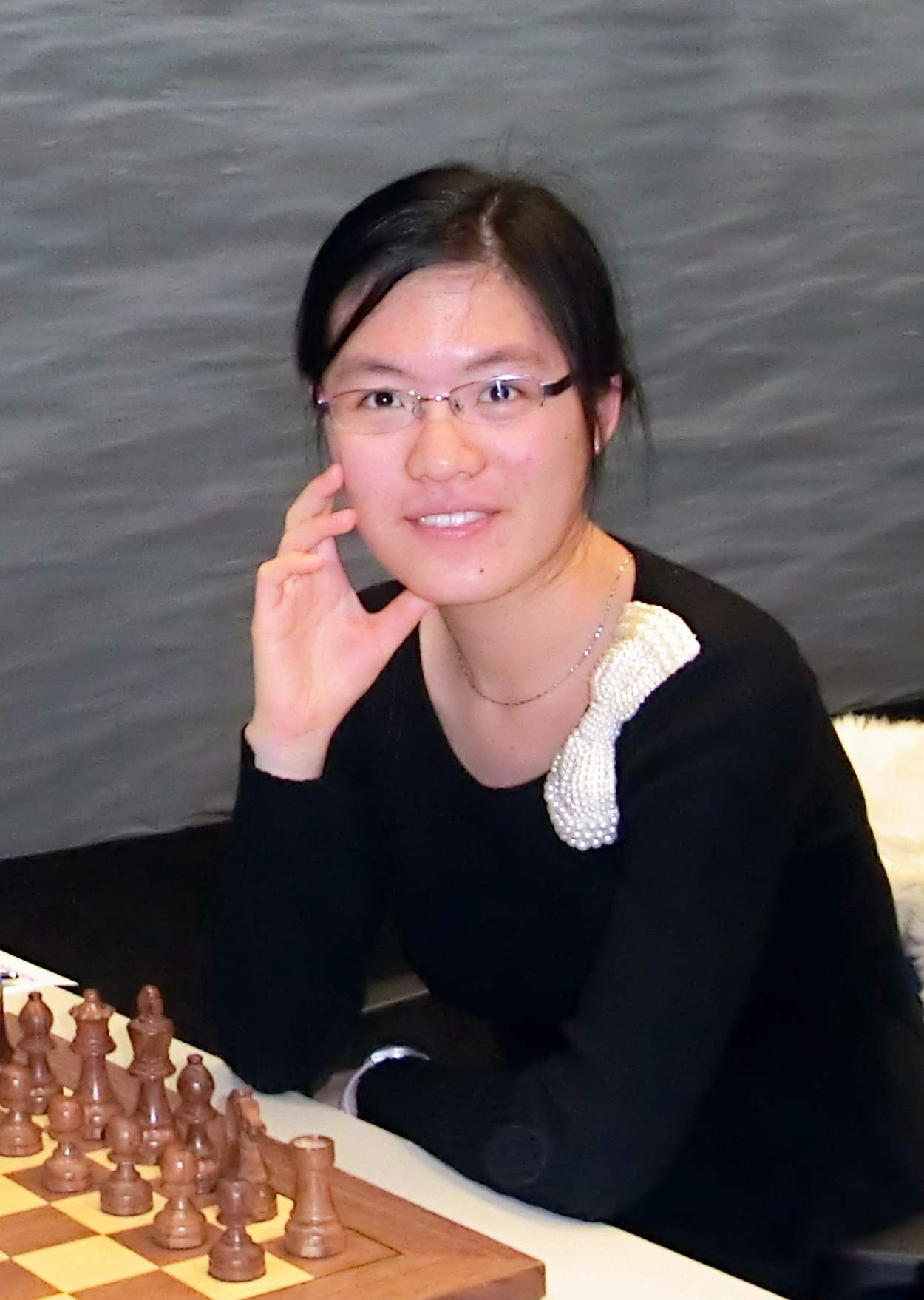 Hou Yifan, chess grandmaster from China